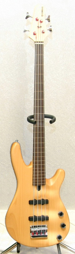 Yamaha BB404F Fretless bass (with fret lines)